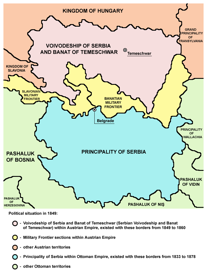 Two autonomous historical territories named Serbia: 1. Principality of Serbia within Ottoman Empire (1833-1878), and 2. Voivodeship of Serbia and Banat of Temeschwar within Austrian Empire (1849-1860)